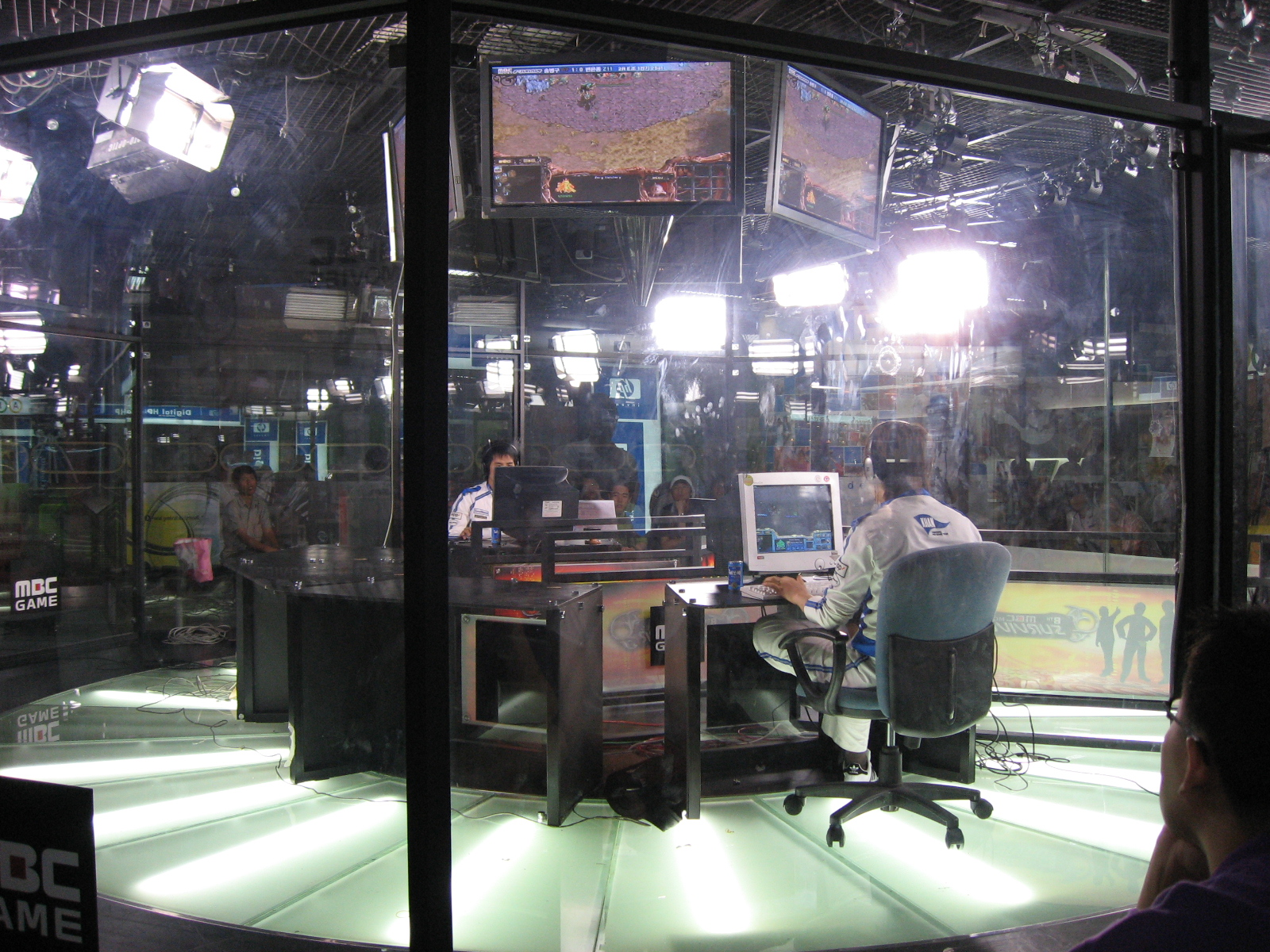 A televised match of StarCraft (Blizzard Entertainment: 1998) in South Korea, televised by MBCGame.